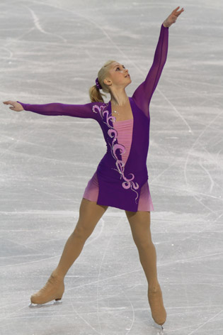 Ksenia Makarova at the 2010 European Figure Skating Championships.